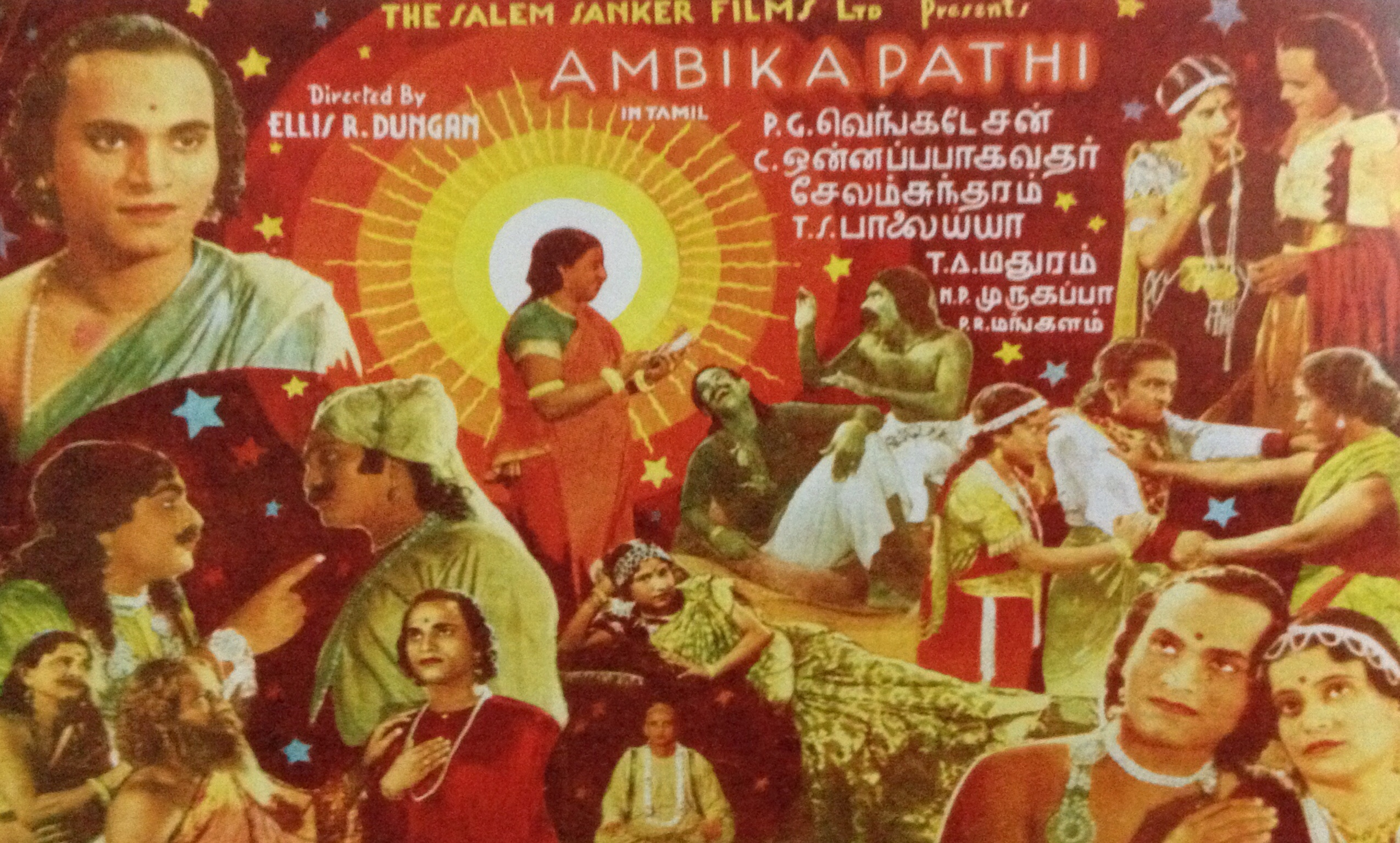 Colour poster for the film Ambikapathy (1937)